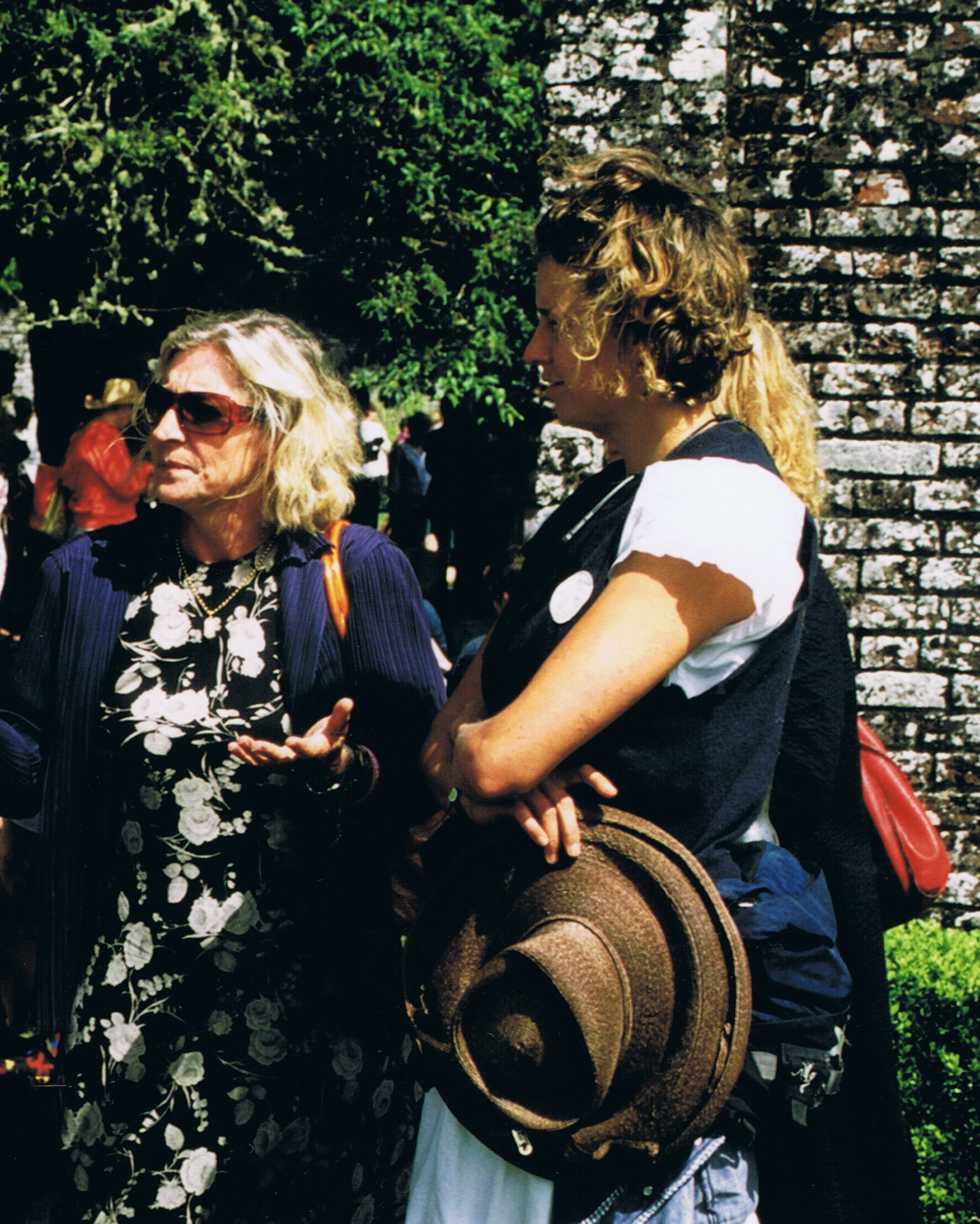 Scan of 35mm photo (both by me, R. de SalisRodolph (talk) 23:27, 26 May 2014 (UTC)), of Rosie Boycott, and Severine von Tscharner Fleming, at the Port Eliot Lit Fest, July 2007.